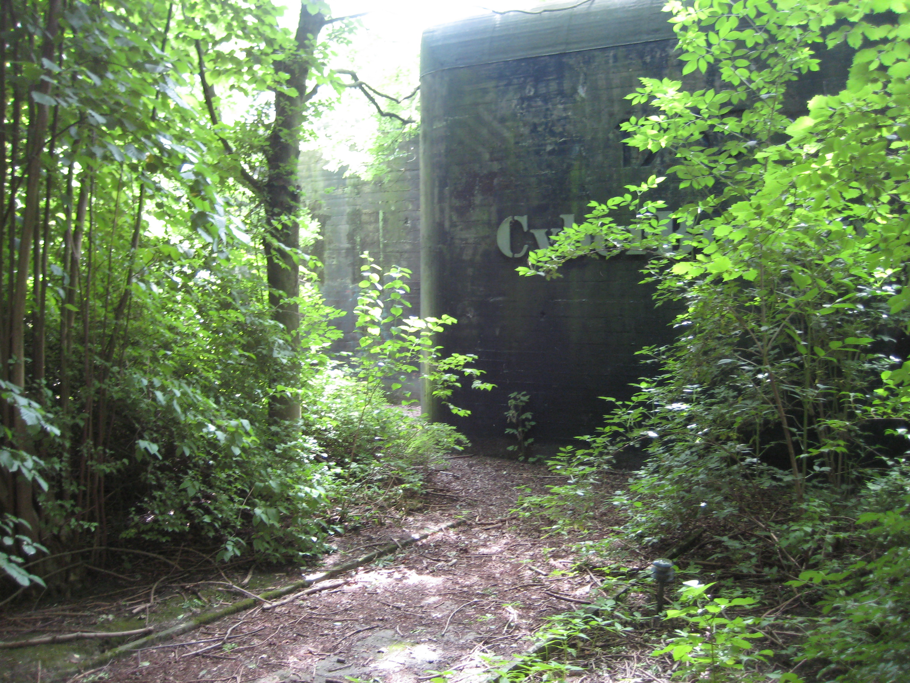 CyberBunker Entrance, Kloetinge